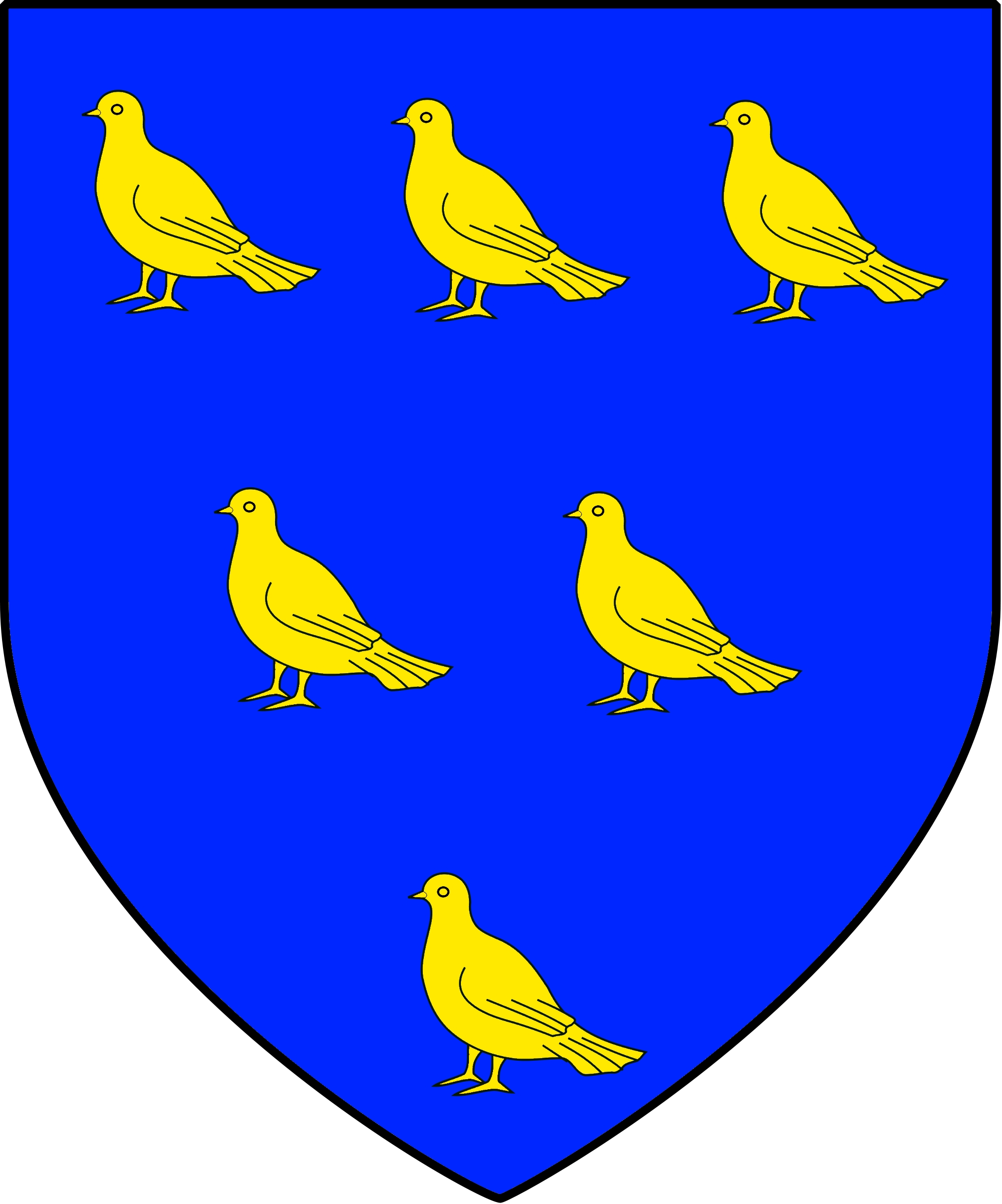 Coat of arms of the De Appleby Family (Azure six martlets Or)